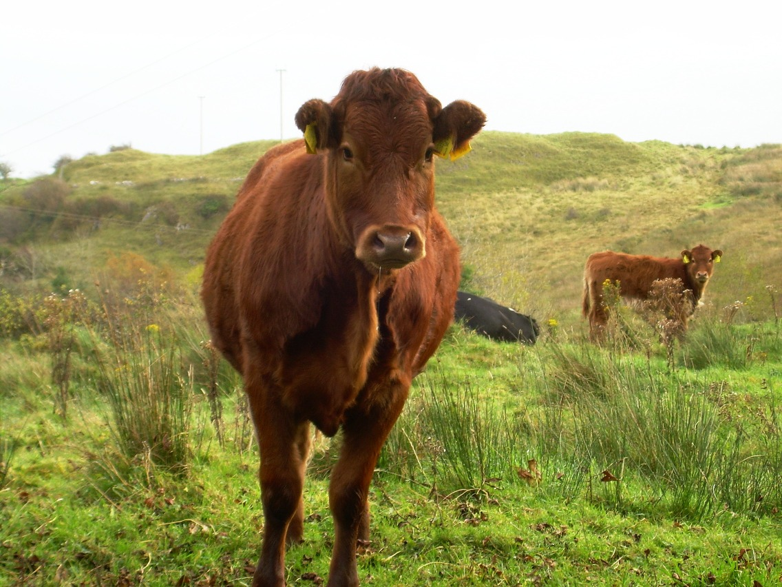 Typical livestock (cattle) grazing on the limestone pastures in Boho, County Fermanagh, Northern Ireland